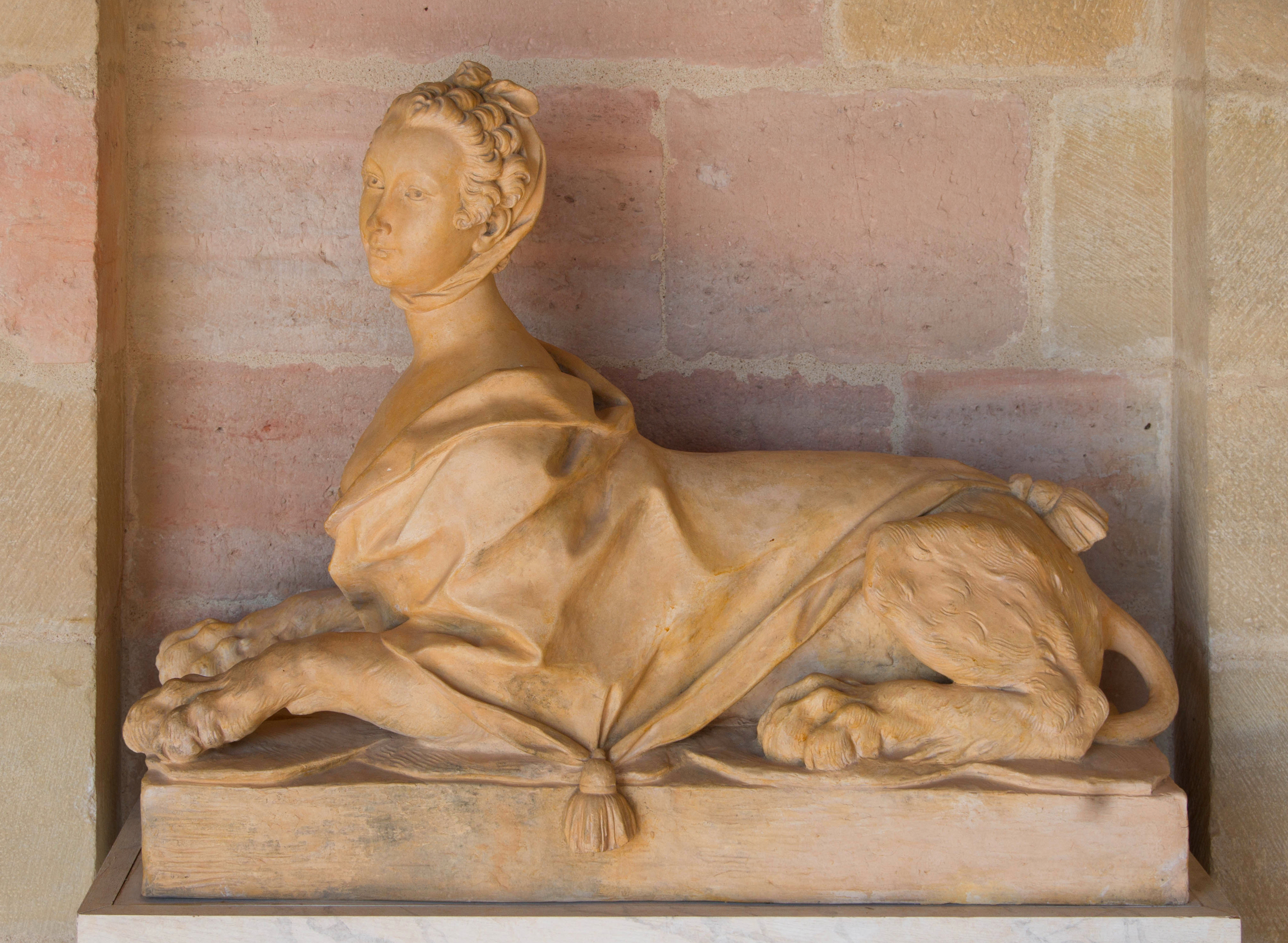 A female sphynx facing left, plaster, 18th-century, Château de Hautefort, Dordogne, France.